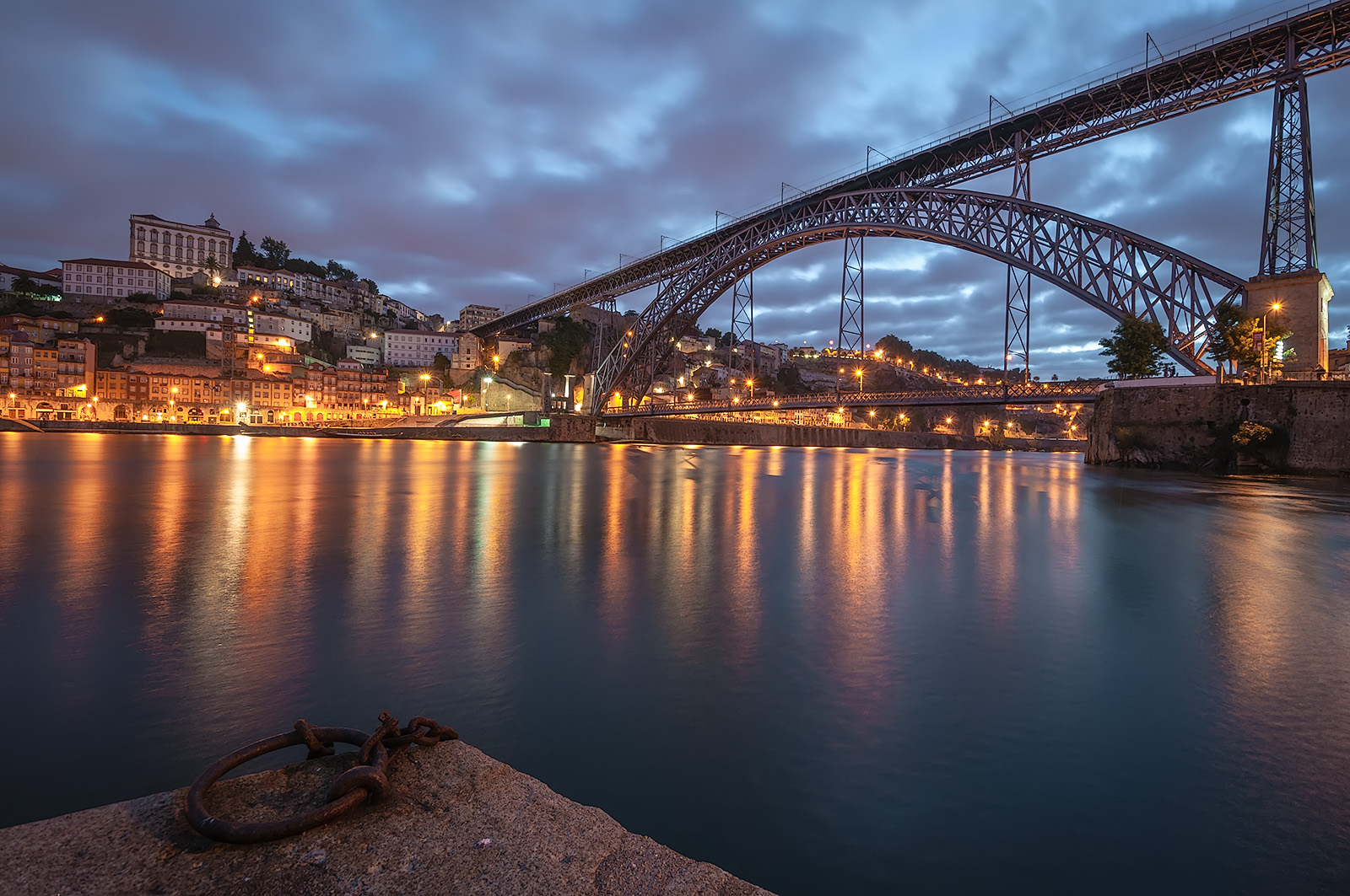 I posted this photo in 2012. Today, two years later, I re-processed it with new eyes, new techniques learned along time. -* Publique esta imagem em 2012, pela primeira vez. Hoje, passados dois aos, decidi re-editá-la aos olhos das novas tecnicas que fui aprendendo no hiato.